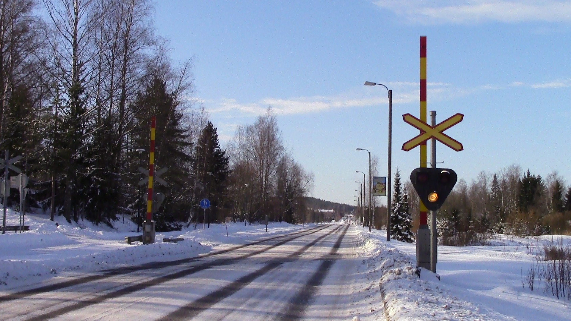 Finnish regional road 172 at Artjärventie level crossing in Orimattila. The road runs from Artjärvi to Orimattila.